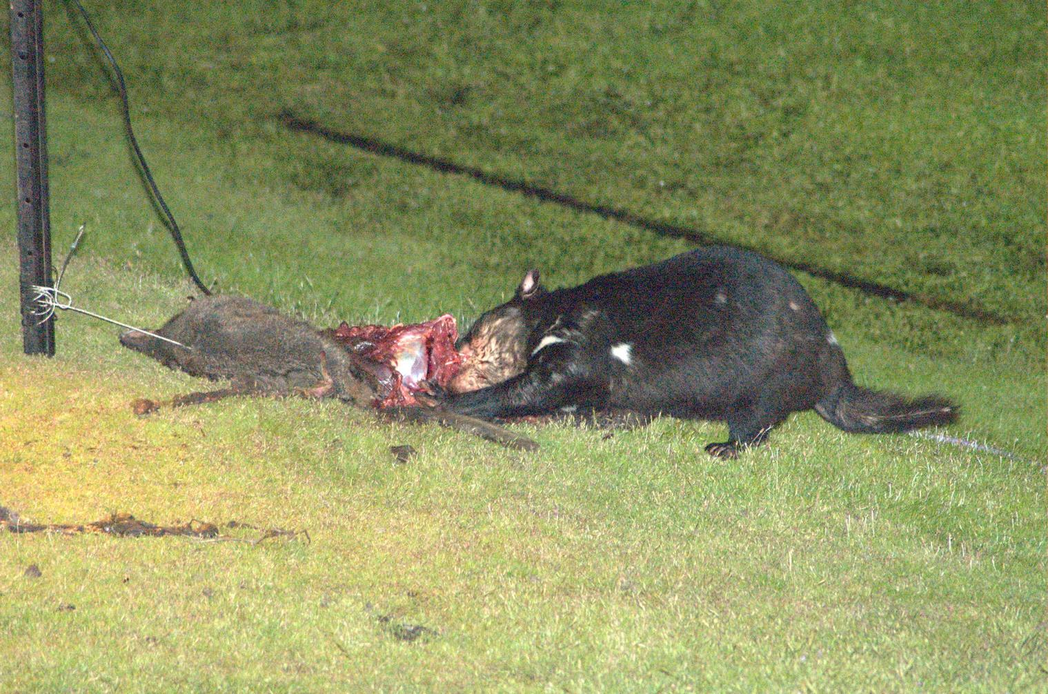 Tasmanian devil eating a wallaby killed by a car earlier that day. The picture was taken in Narawntapu National Park, Tasmania, in December 2005 late at night -- around 12:30am. Many thanks to Shane of "Thylacine Expeditions" (a Tasmanian tour operator) for arranging this "photo trap". (An even higher resolution photo is available upon request). пан Бостон-Київський 18:21, 26 January 2006 (UTC).